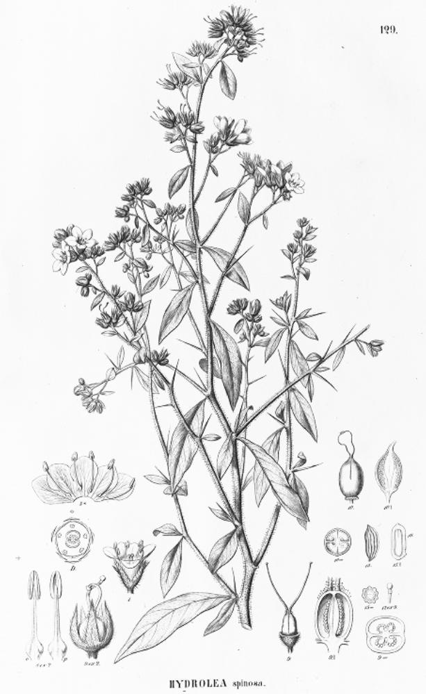 Illustration of Hydrolea spinosa